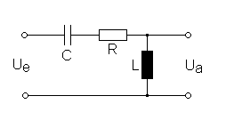 LCR high-pass filter.